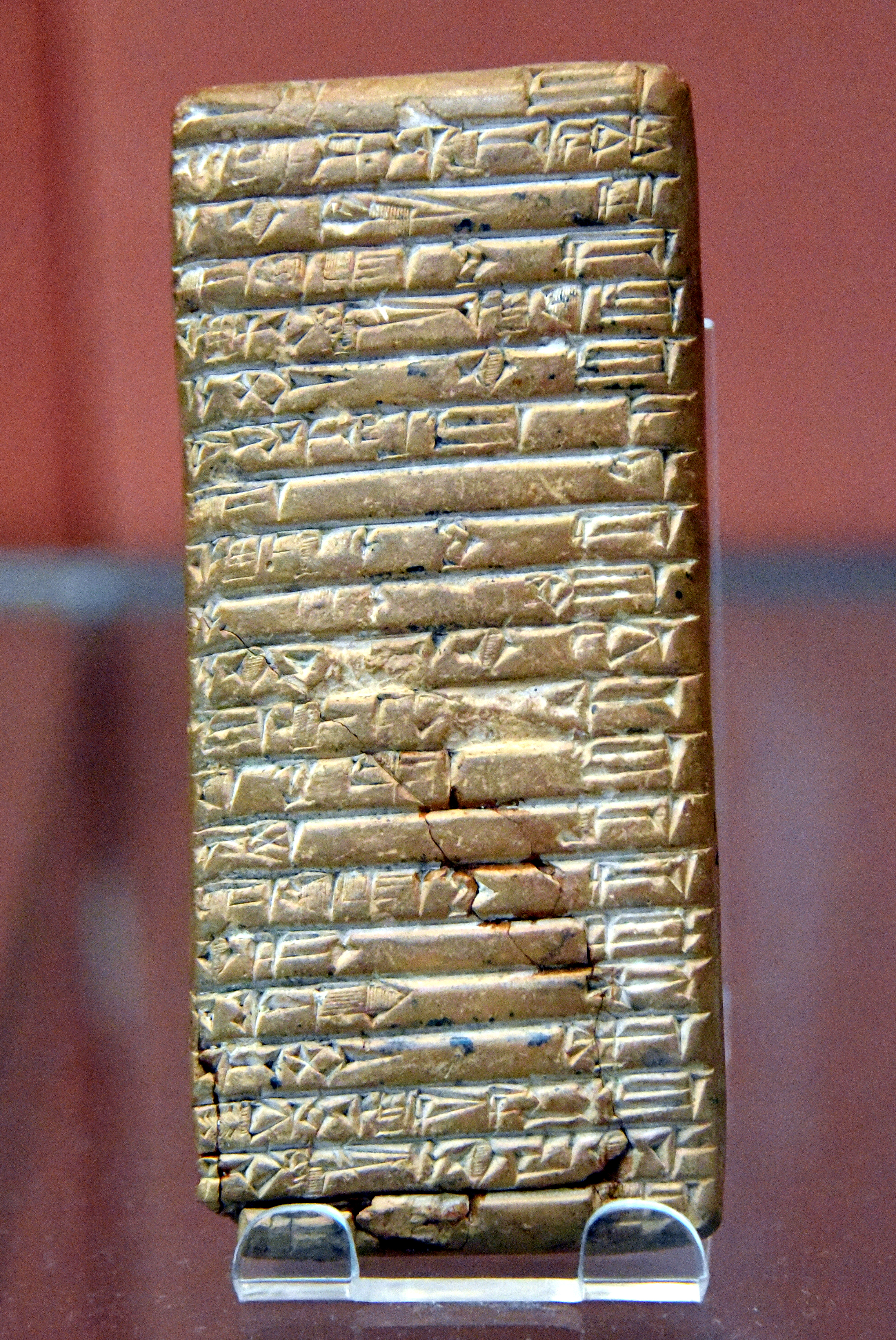 The cuneiform inscription on this clay tablet mentions the Gutian invader of the Akkadian empire. Akkadian period, c. 2250 BCE. From Iraq. British Museum. NB: The tablet was donated to the British Museum by Dr. N. Corkill in 1930 CE. Precise provenance of excavation is unknown.